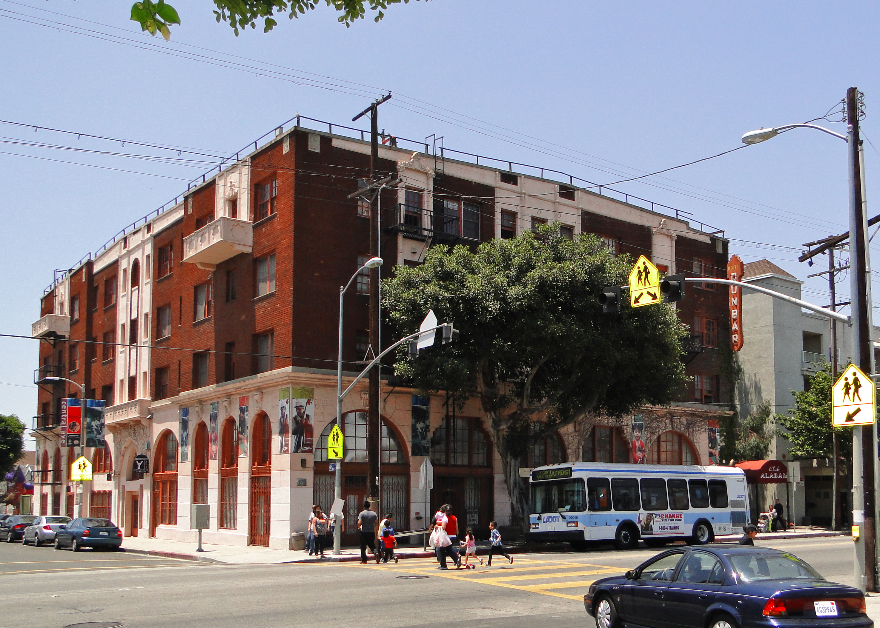 Dunbar Hotel — 4225 S. Central Avenue, South Los Angeles community, Los Angeles, California. The focal point of the Central Avenue African-American community in Los Angeles during the 1930s and 1940s. Los Angeles Historic-Cultural Monument #131; and on the National Register of Historic Places.